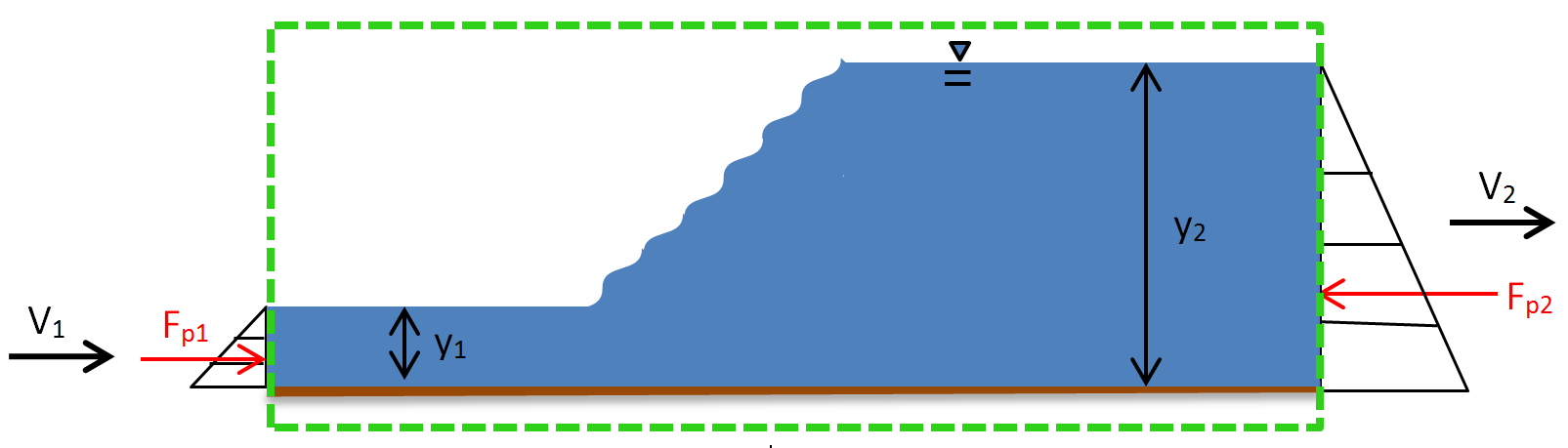 Conservation of Momentum – Forces applying to a control volume surrounding a hydraulic jump